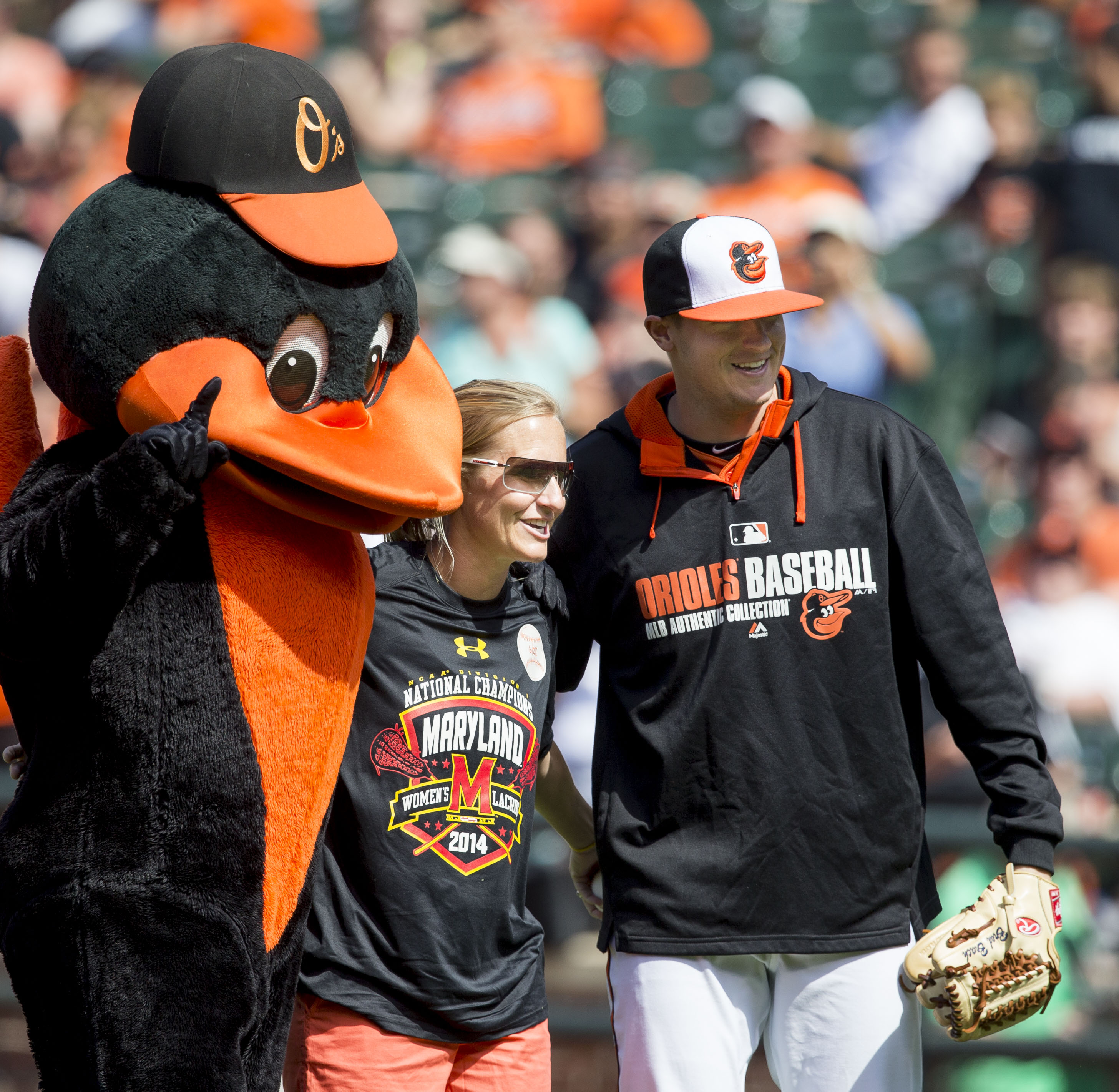 Cathy Reese University of Maryland Women's Lacrosse before the Rays at Orioles game on June 28, 2014 in Baltimore, MD/